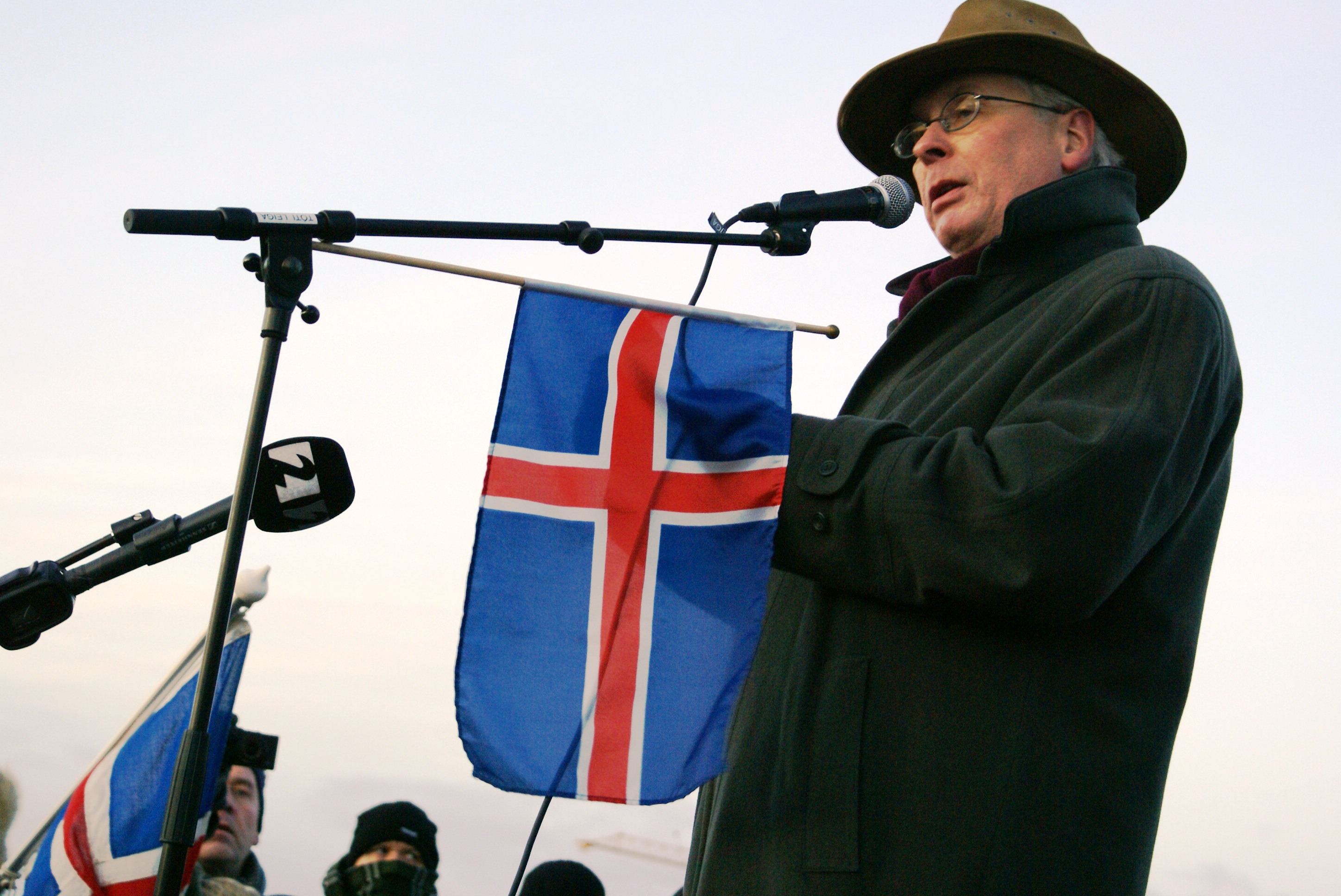 Week 8. Thorvaldur Gylfason Professor of Economics University of Iceland at Arnarhóll by statue of Leifur Eiríksson. Organized by Opinn borgarafundur (Civic Action Association).